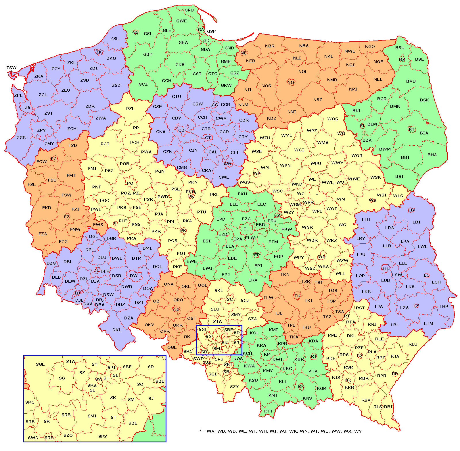 First letters on Polish license plates acording districts (powiaty). Series 2000. Version 2006